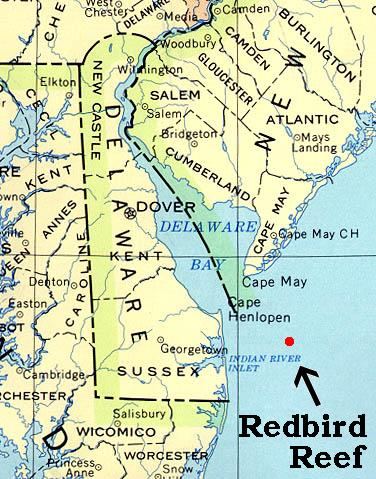 Perry-Castañeda Library Map Collection (a collection of maps where most are in public domain, see Library Web Material Usage Statement.) "Courtesy of the University of Texas Libraries, The University of Texas at Austin."